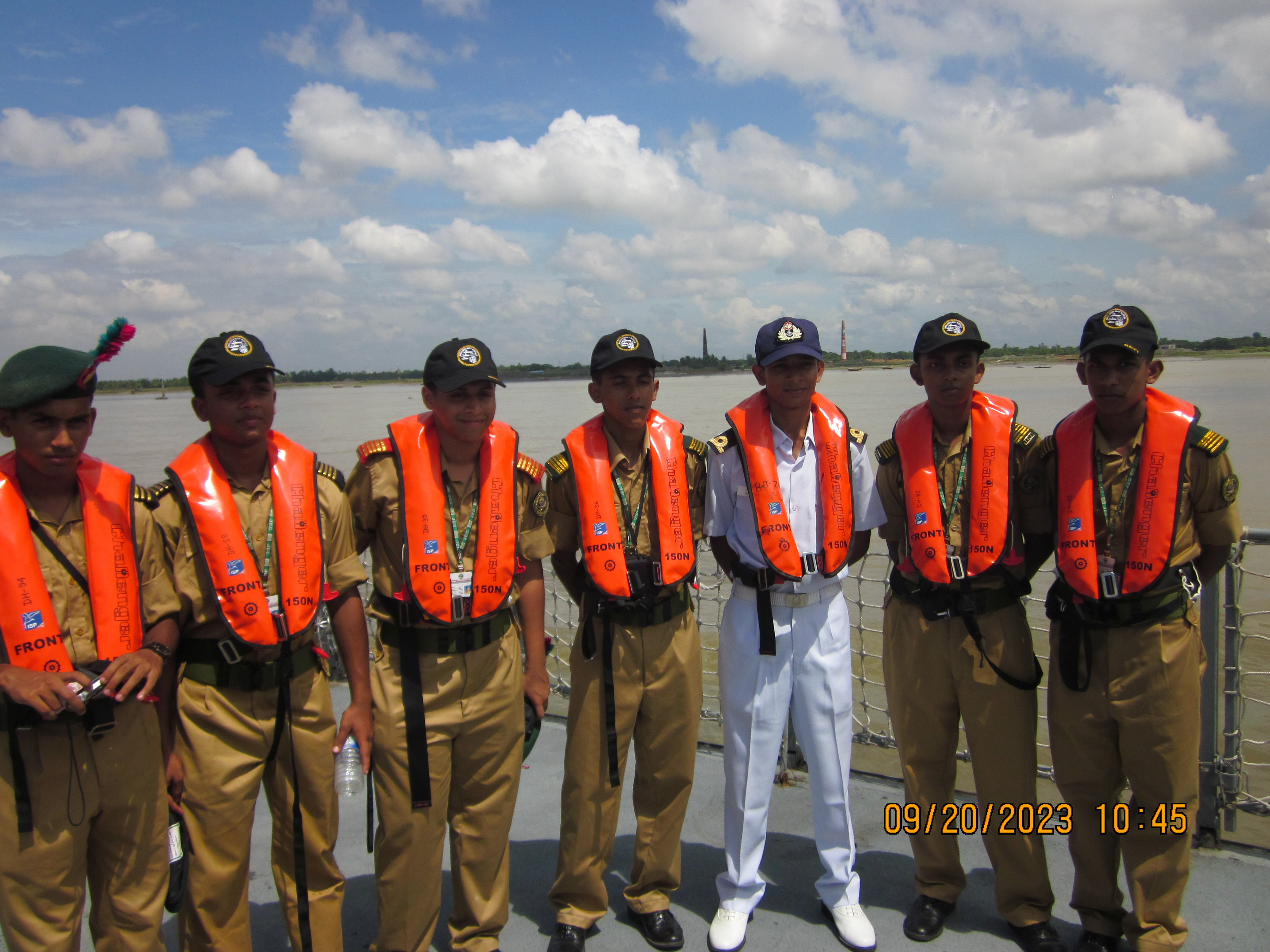 This is a photo of the cadets on a ship deck when they were in a study tour.